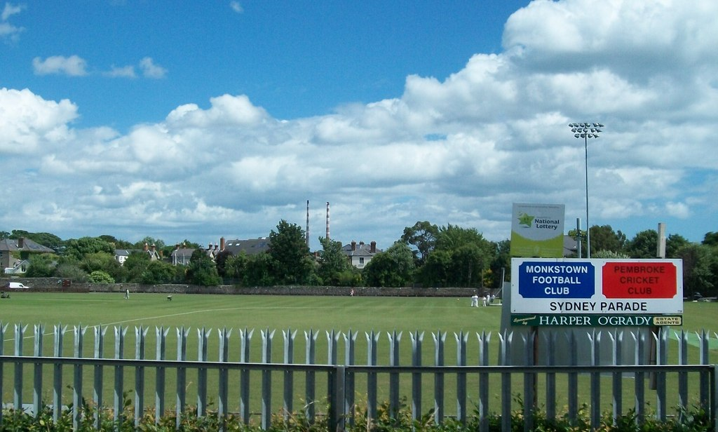 The Pembroke Cricket Club Grounds, Sydney Parade